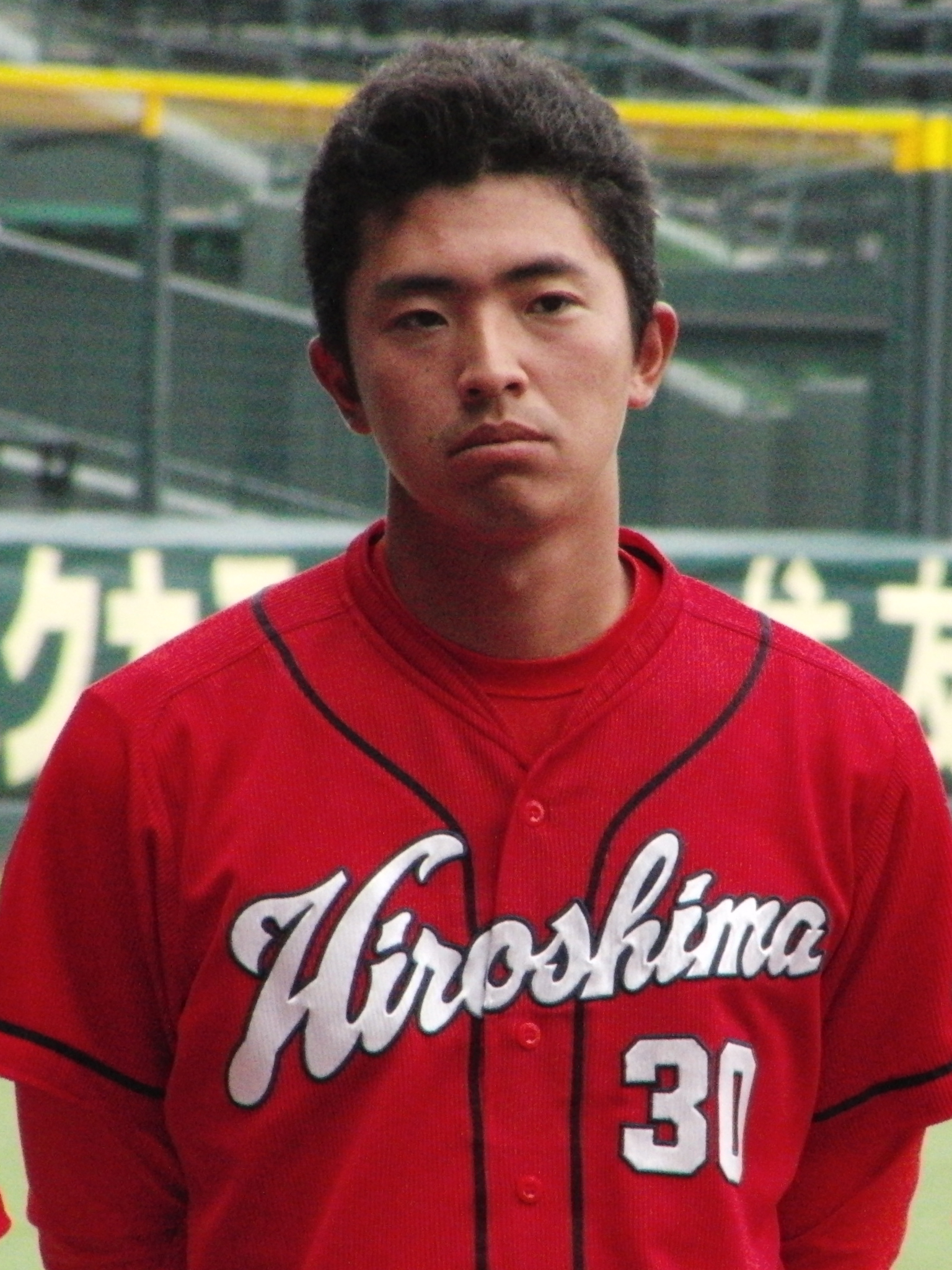 Masaya Kanemaru, pitcher of the Hiroshima Toyo Carp, at Hanshin Koshien Stadium.